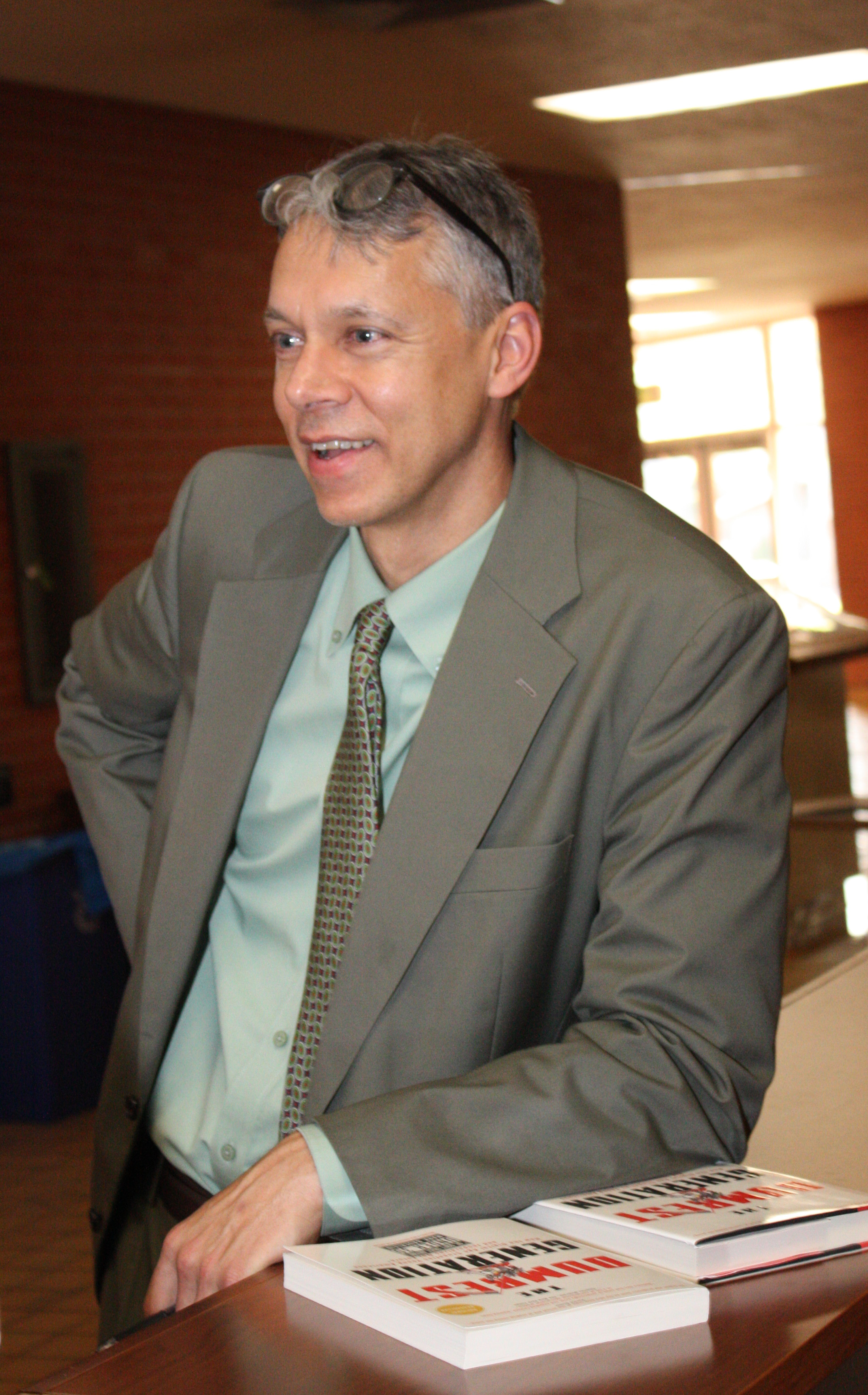 CLS Feaver-MacMinn Seminar; Dr. Mark Bauerlein; April 2011